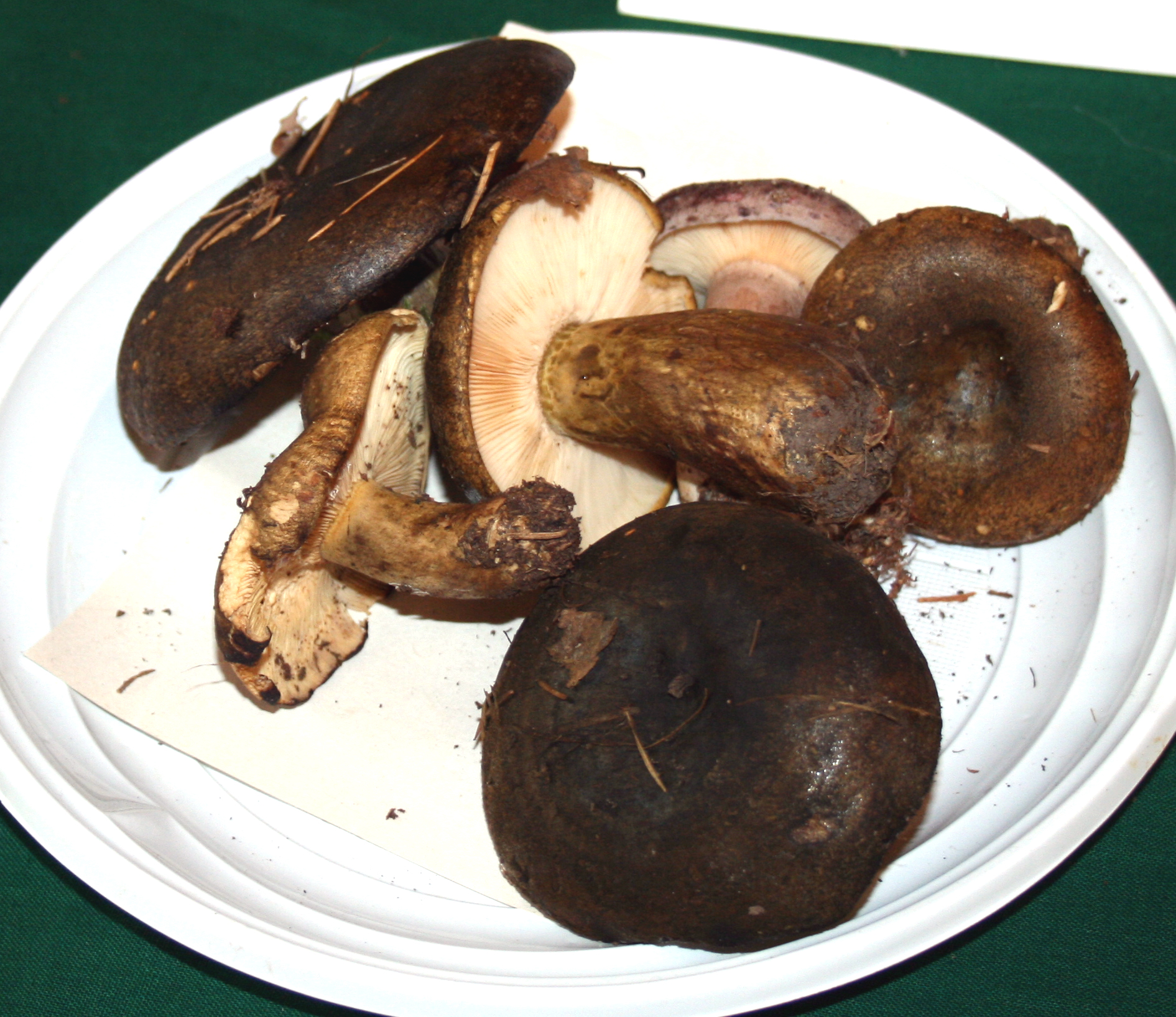 Lactarius turpis on Prague international mushroom exhibition 2008, Czech Republic